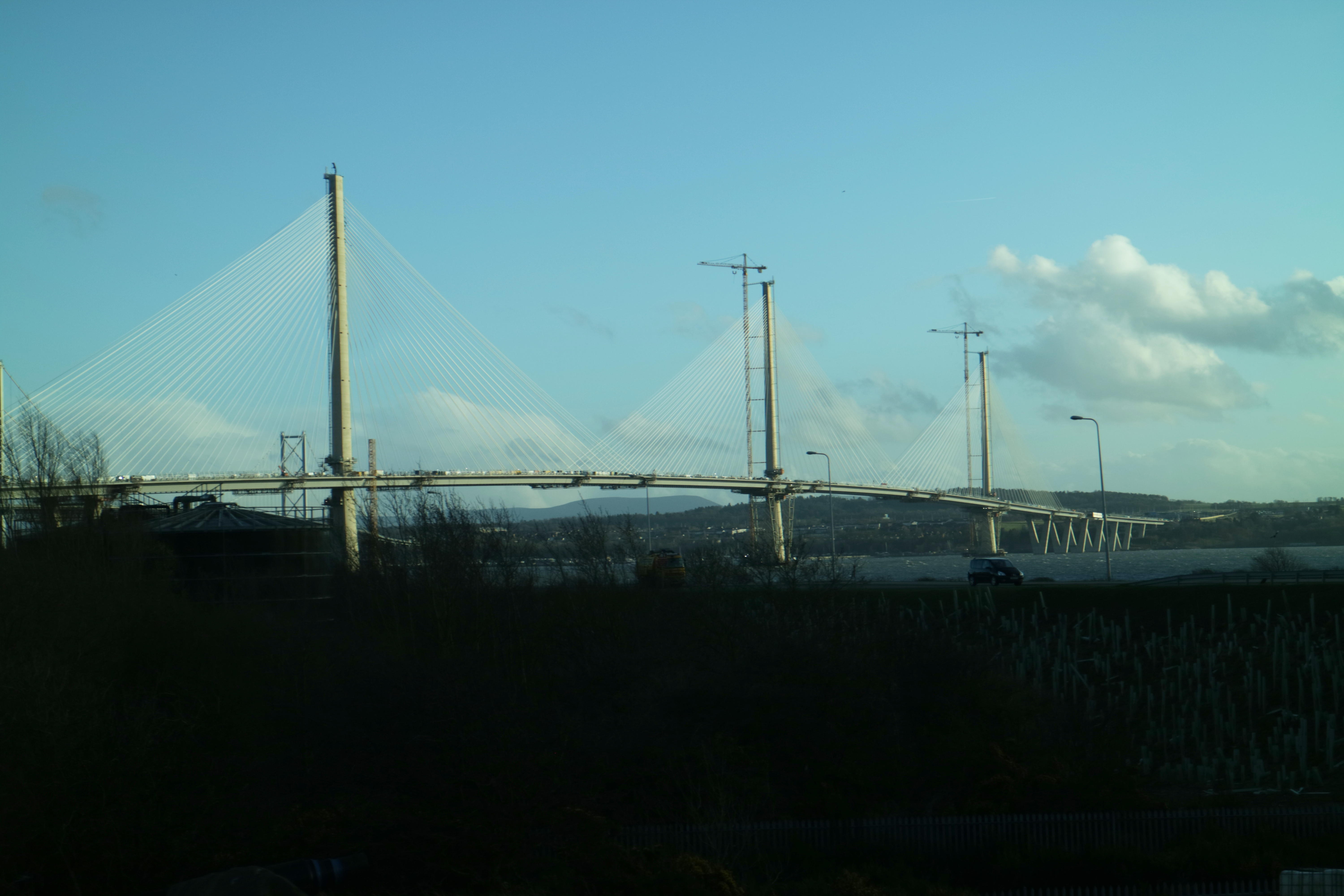 Queensferry Crossing seen from the North.